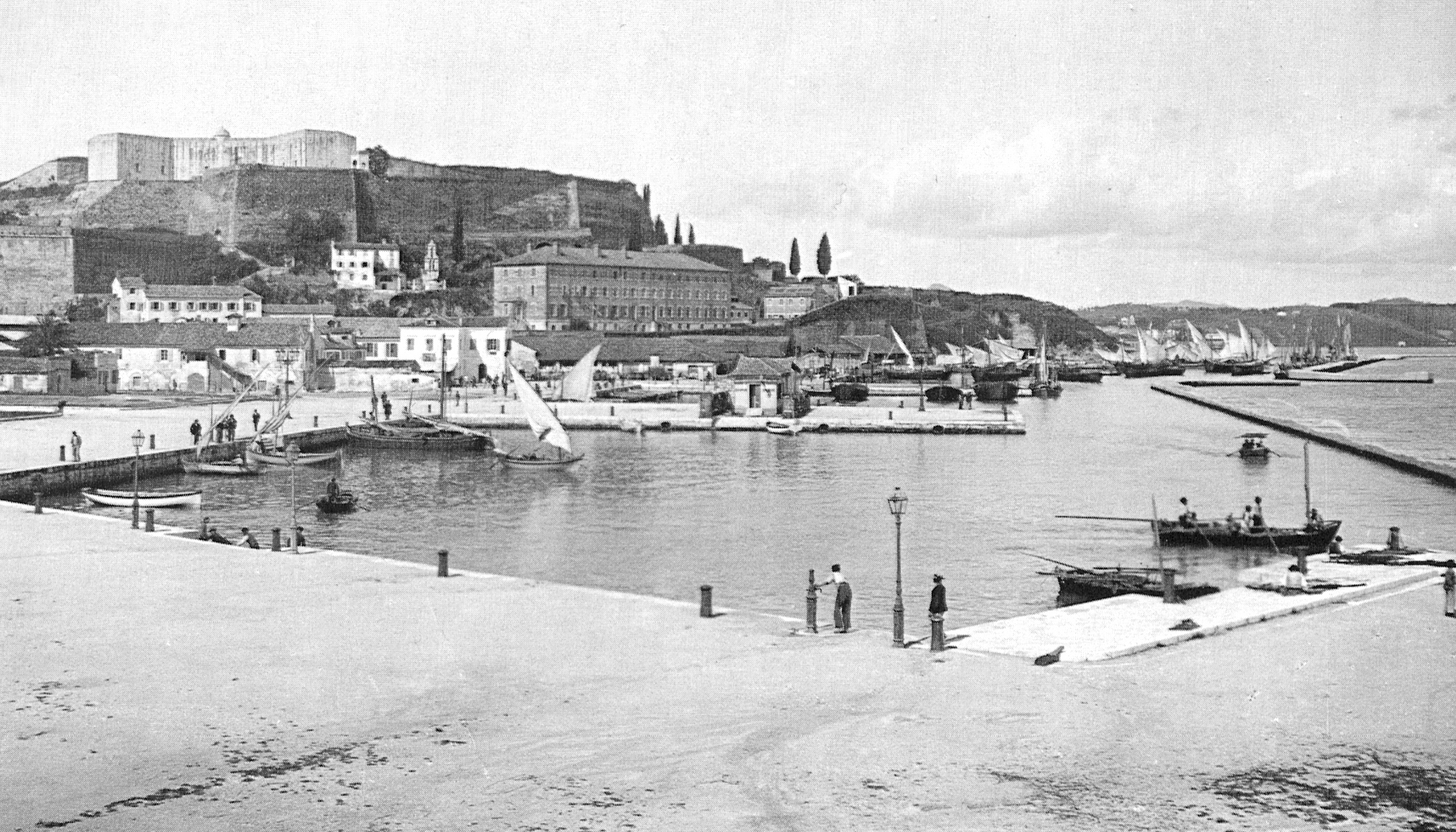 Harbor of Corfu (Greece) in 1890